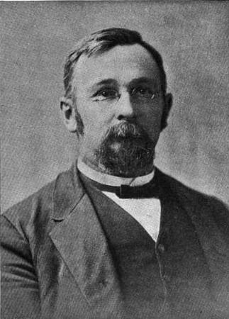 Ezra H. Ripple, Captain of the Citizens' Corps, 1877